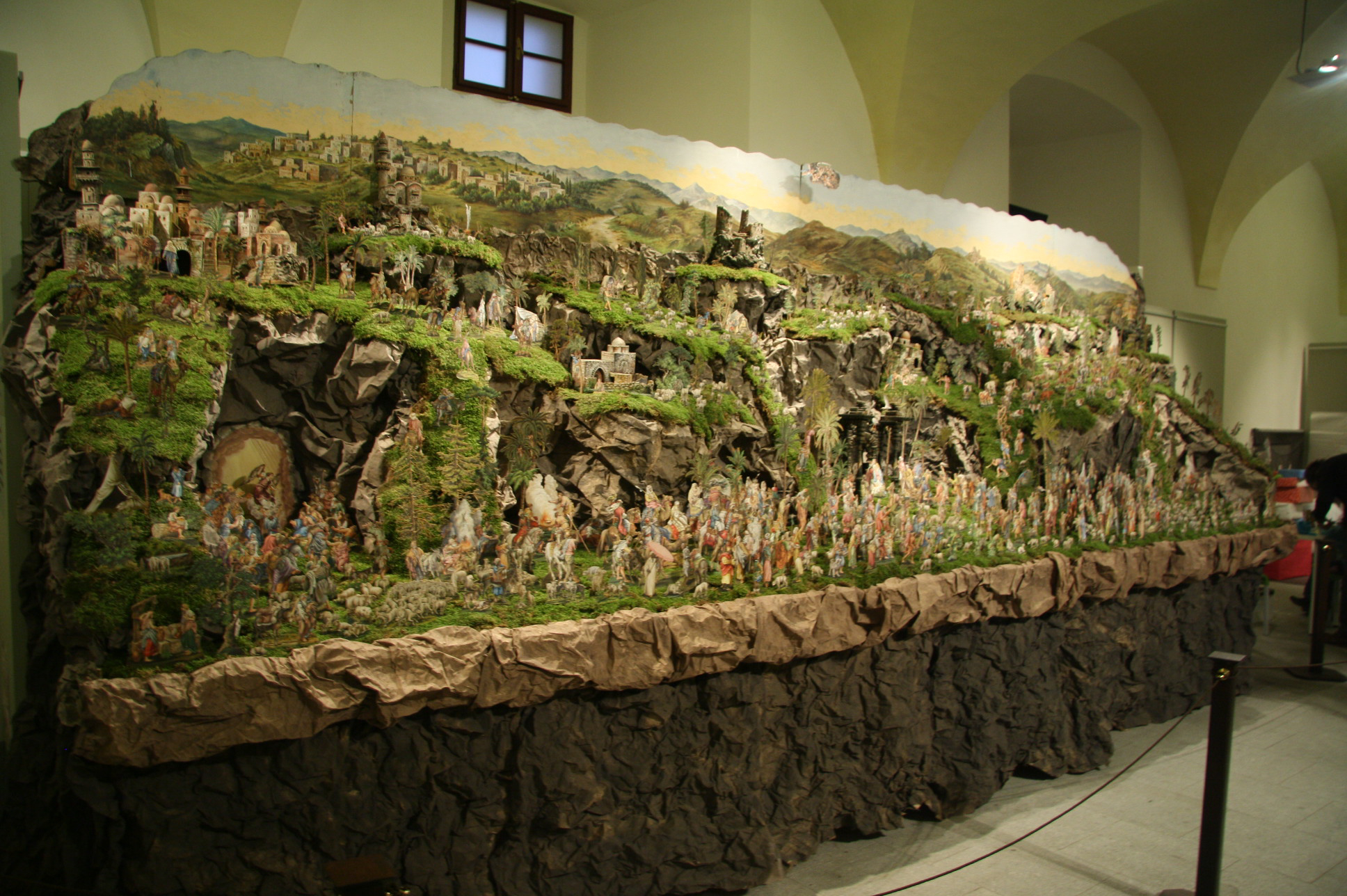 Adolf Jelínek Expo 67 crib in Crib exhibition 2015 at Muzum Vysočiny, Zámek Třebíč, Třebíč, Třebíč District.